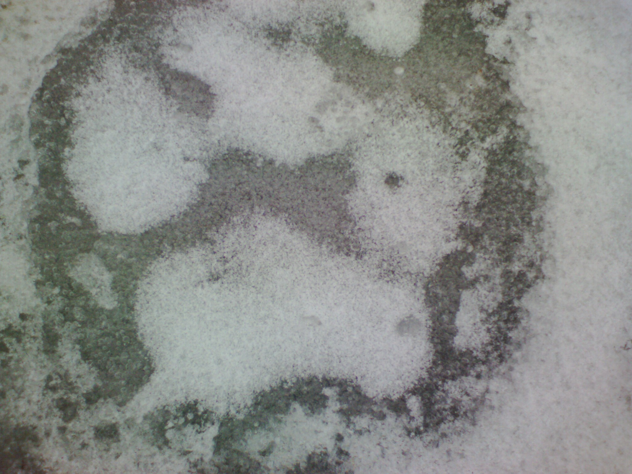 Huge, terrible dog footprints in the ice. Its diameter is more than eight centimeters.